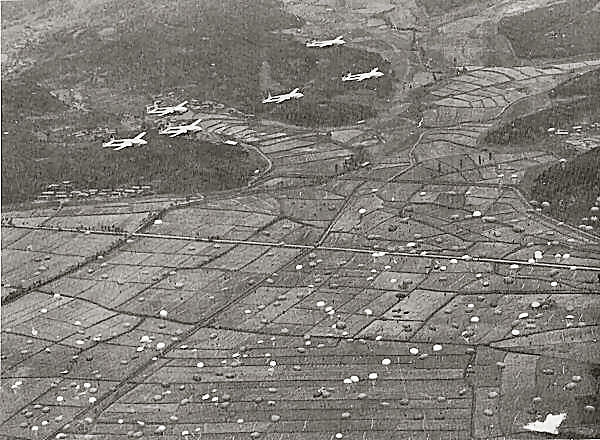 US 187 RCT airdrop near Sunchon, October 1950